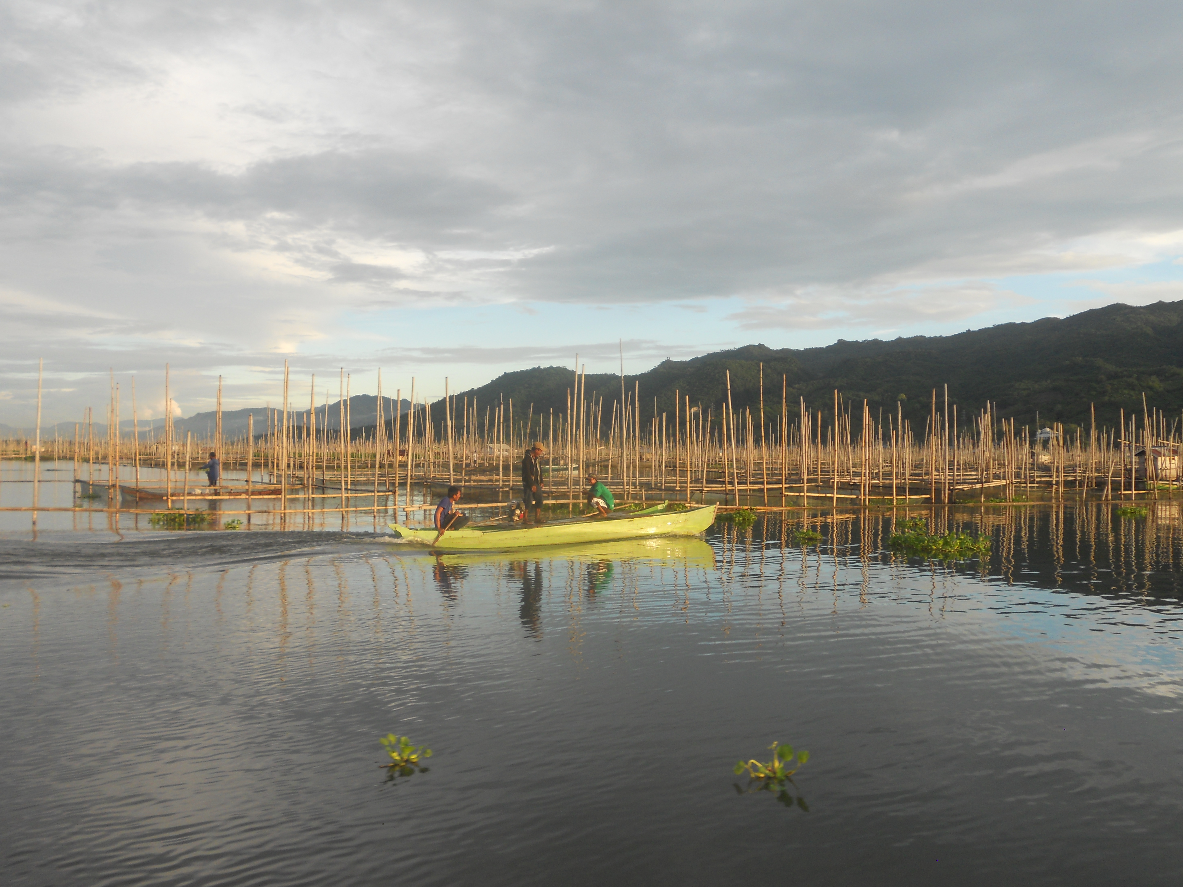 Fishing boats while passing Lake Limboto.